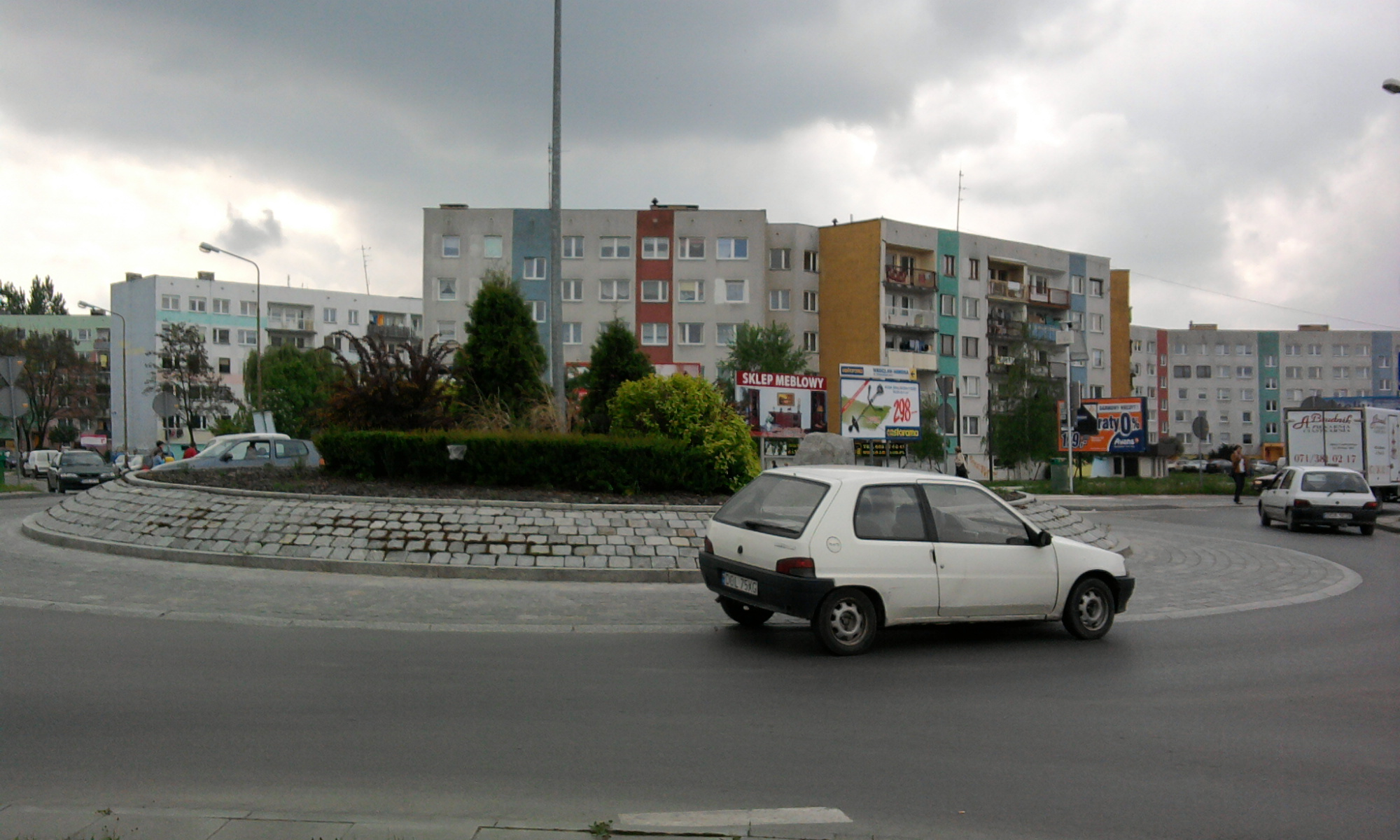 Roundabout built in 2006, Jelcz-Laskowice, Poland